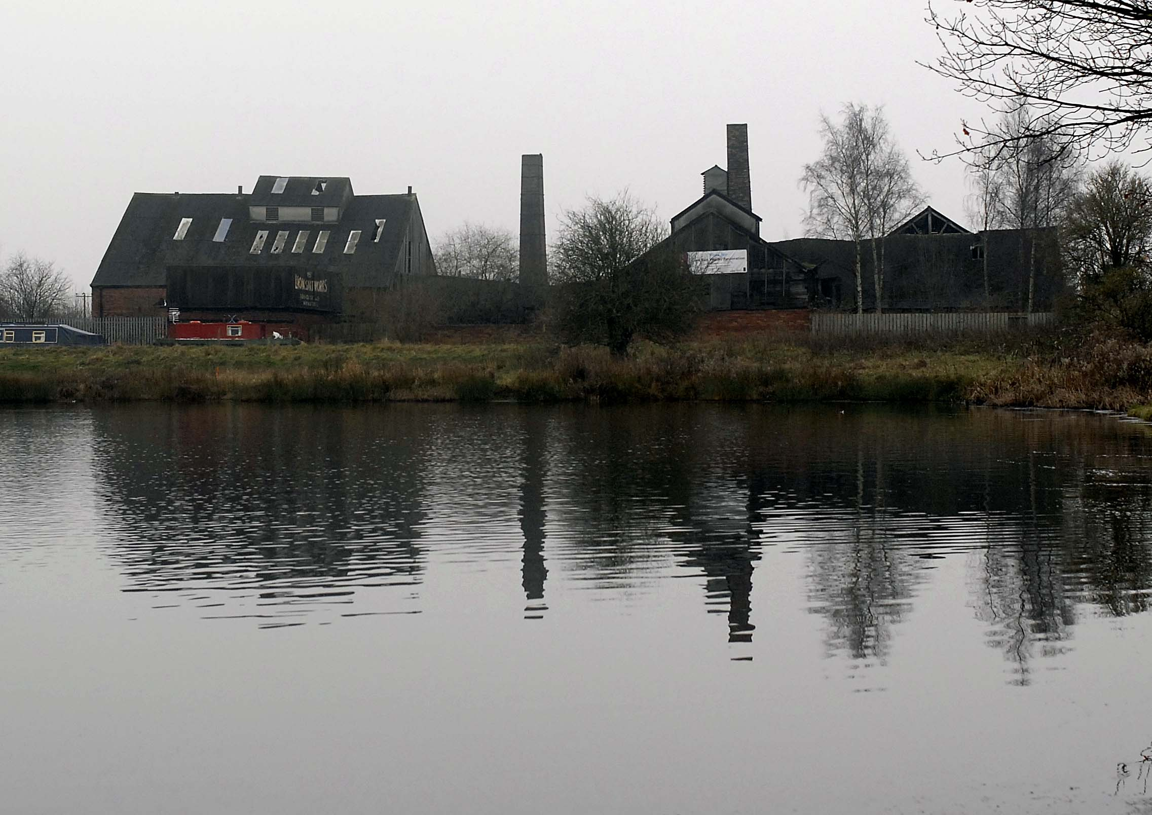 Photograph of Lion Salt Works, Marston, Northwich, Cheshire. Photograph taken by self. 2006